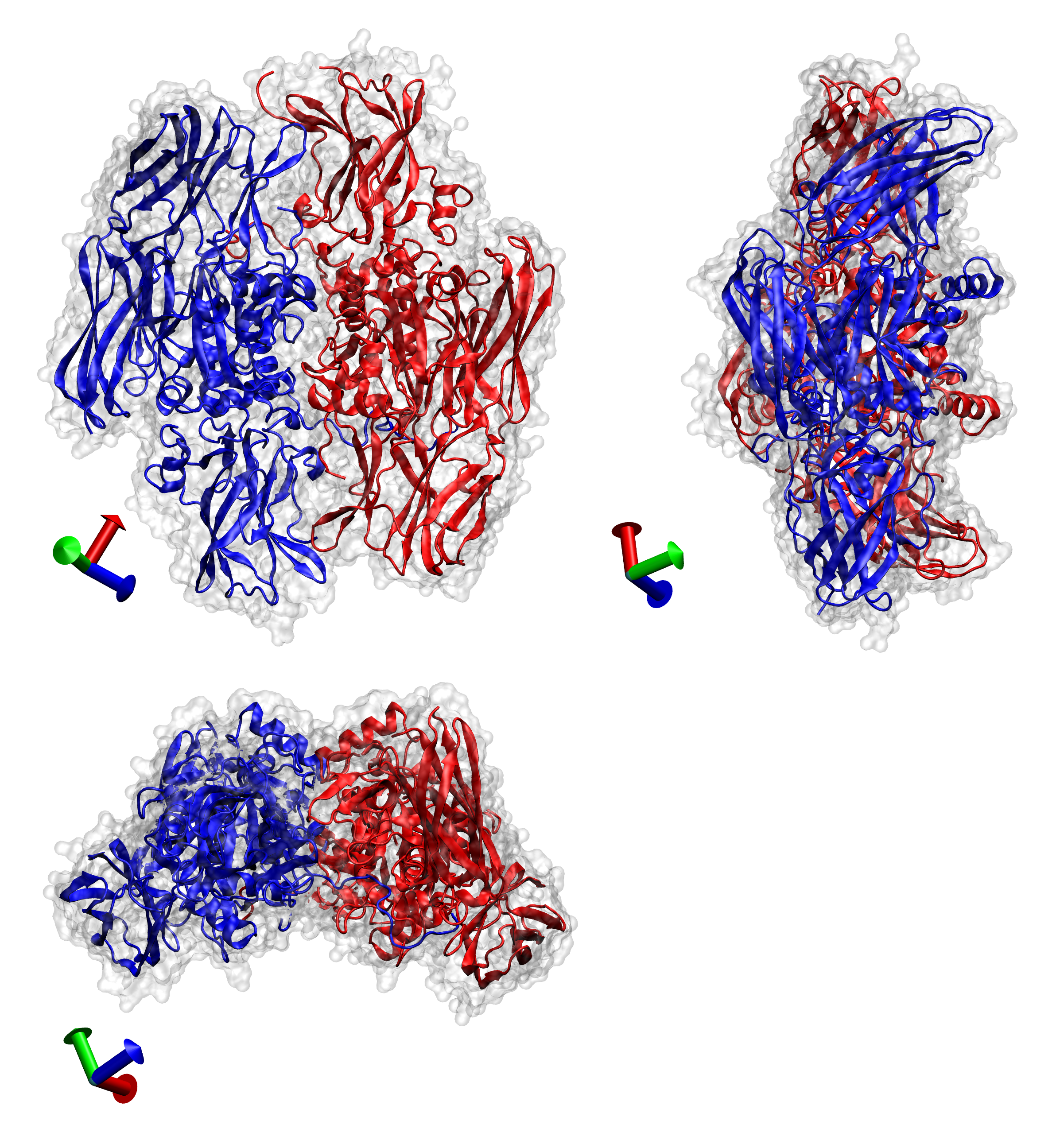 3d ribbon/surface model of human coagulation factor XIII chain A dimer after PDB 1EVU. Ref.: Garzon et al. Tryptophan 279 is Essential for the Transglutaminase Activity of Coagulation Factor XIII: Functional and Structural Characterization. To Be Published, This image was created with VMD